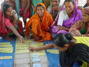 Picture taken by APB-CMX, Bangladesh, 2004. The picture shows a PRA ranking exercise conducted by Kamal Kar. The participants were women members of a Farmer Field School organised by CARE.